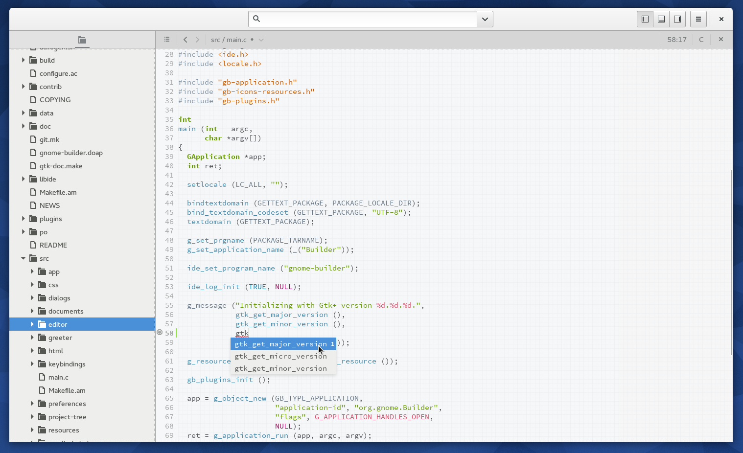 Gnome Builder interface showing the source code of Gnome Builder itself. The window uses the Adwaita theme and the source code is highlighted using the theme "Builder". The screenshot also shows Builder's code-completion.